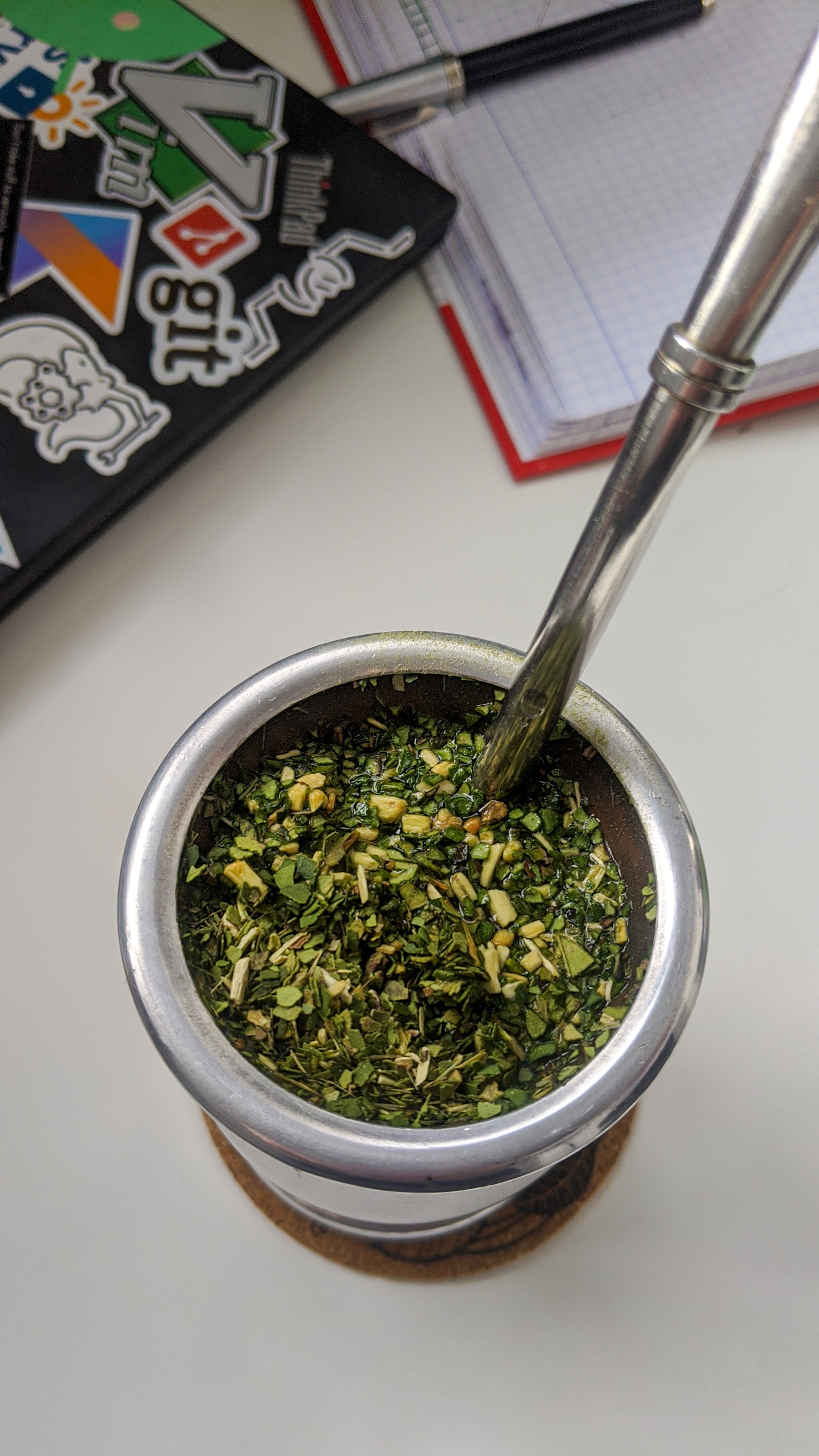 Yerba mate prepared in palo santo cup